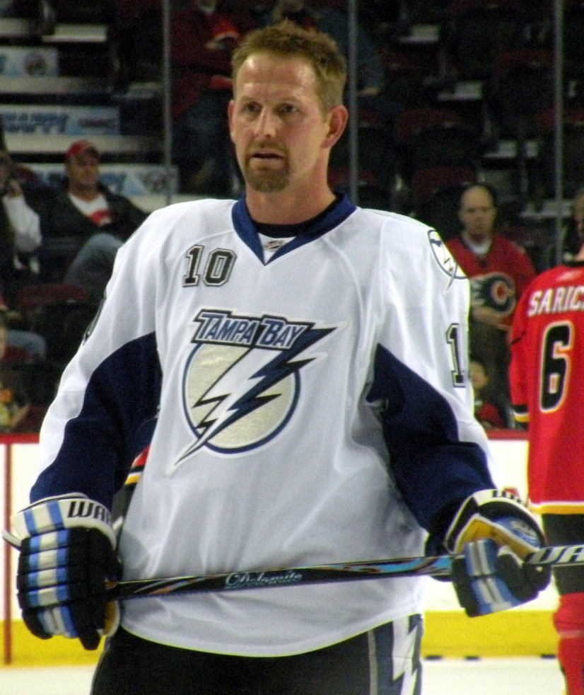 Gary Roberts of the Tampa Bay Lightning during warm-up prior to a game against the Calgary Flames, in Calgary.